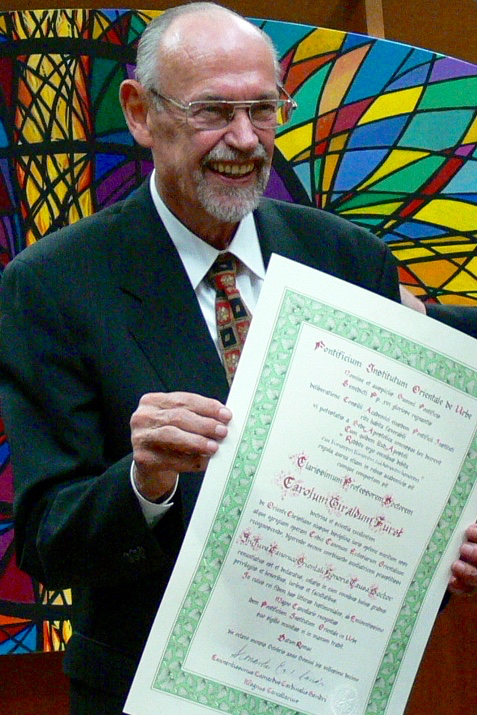 Carl Gerold Fürst (2010)